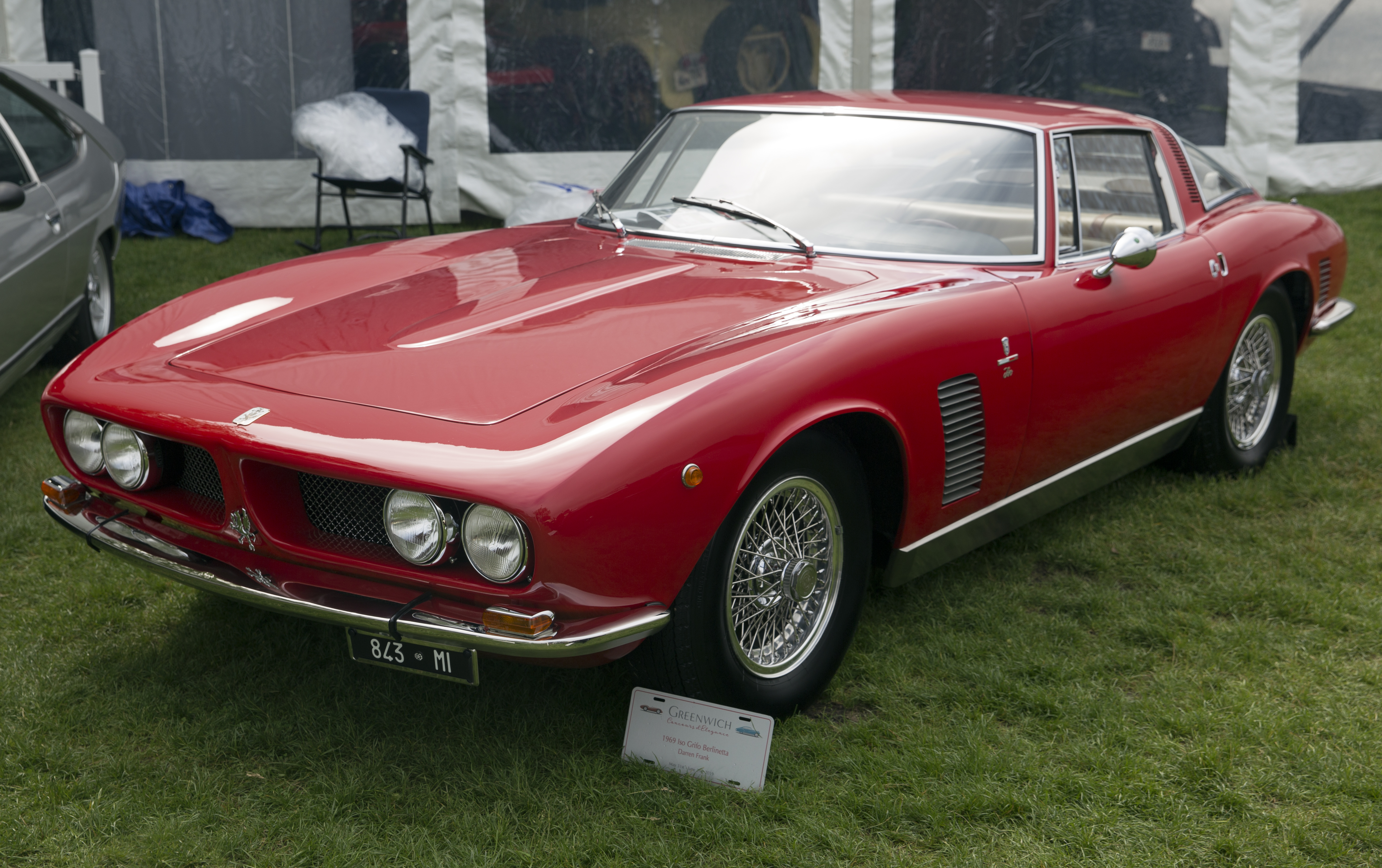 1969 Iso Grifo at the 2019 Greenwich Concours d'Élegance. Owned by Darren Frank of North Carolina, this well-publicized car is often referred to as "the best Grifo on the planet." He never trailers it, always drives it to shows, no matter how distant.